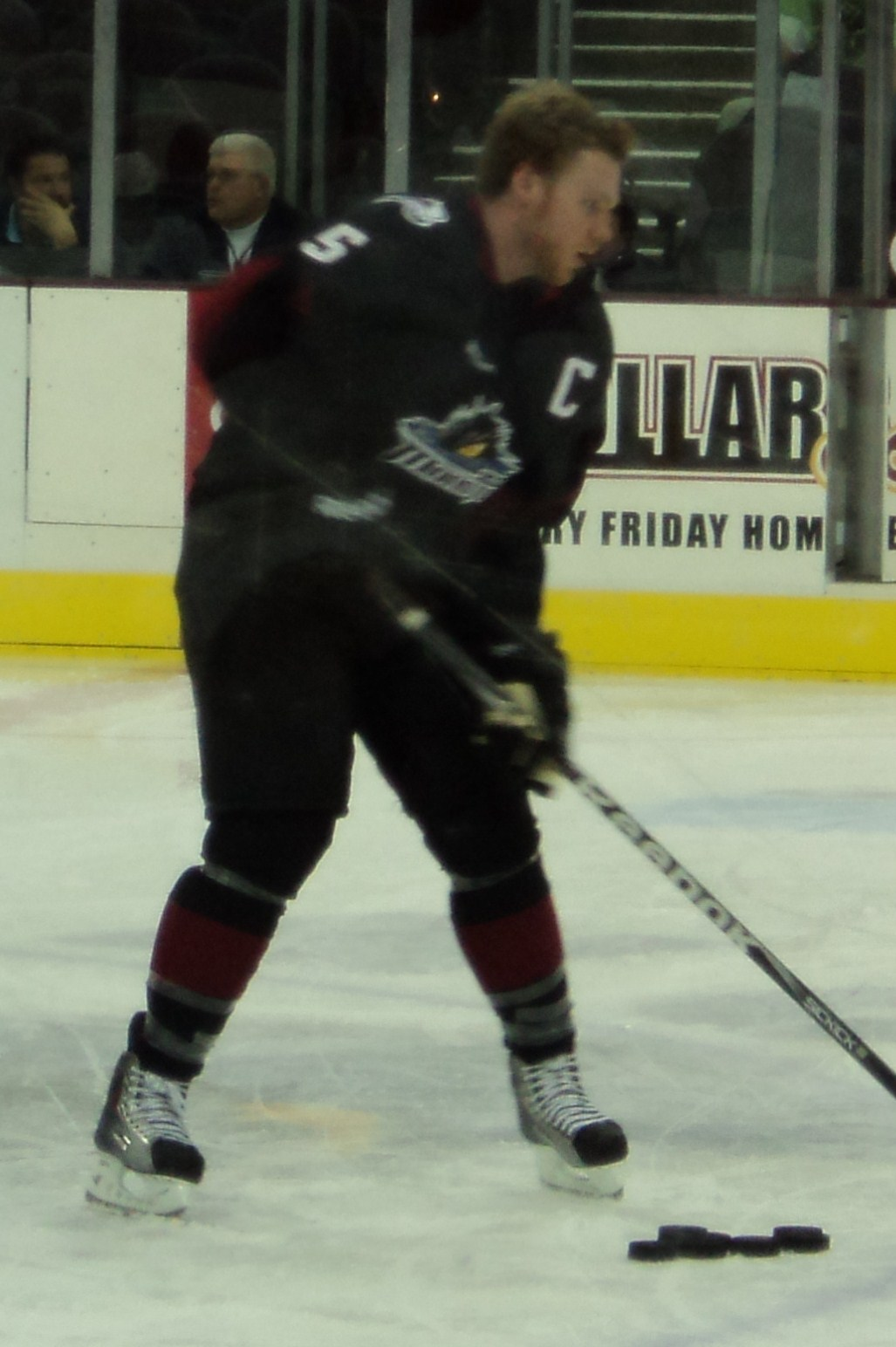 Image of a hockey player